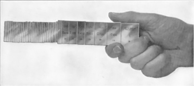 Photo of 36 Johansson gauge blocks wrung together and held horizontally, from a 1907 toolmaking book. The blocks are held together solely by the adhesion of their extremely flat surfaces, which is so strong that it easily supports their weight. Caption of photo: "Thirty-six gages wrung together and held horizontally". Alterations to image: removed caption, increased brightness.